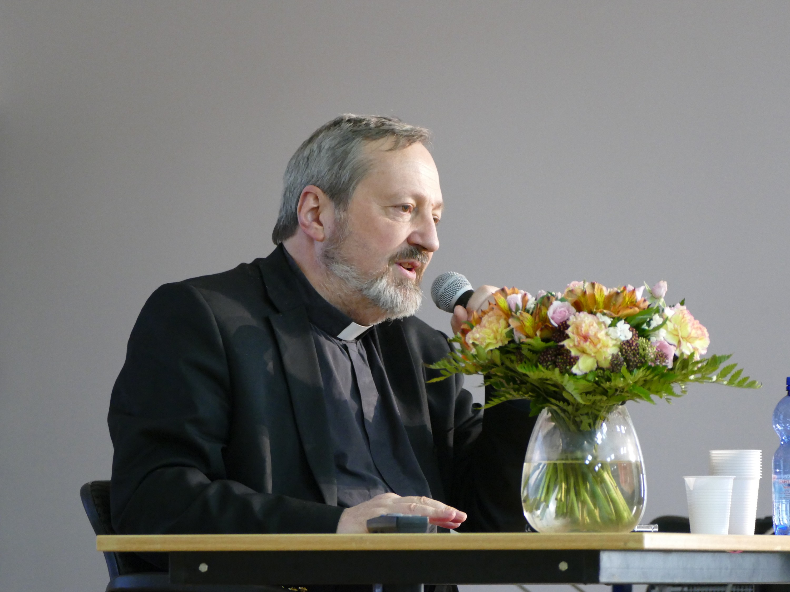 Mgr Pascal Gollnisch, directorr of the Œuvre d'Orient, at the Lycée Saint-Jean-d'Hulst in Versailles (Yvelines, Île-de-France, France).